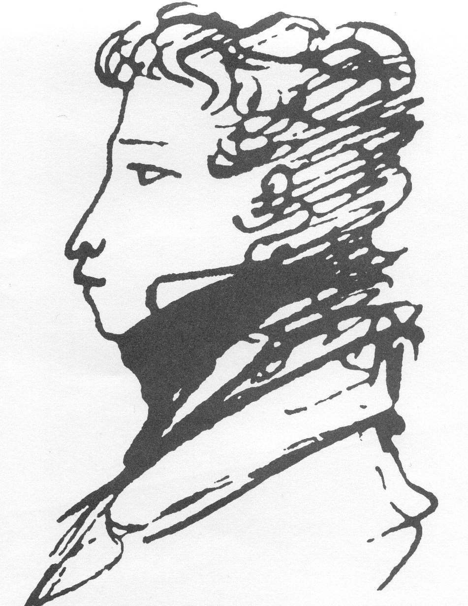 Alexander Puschkin, self-portrait, 1921